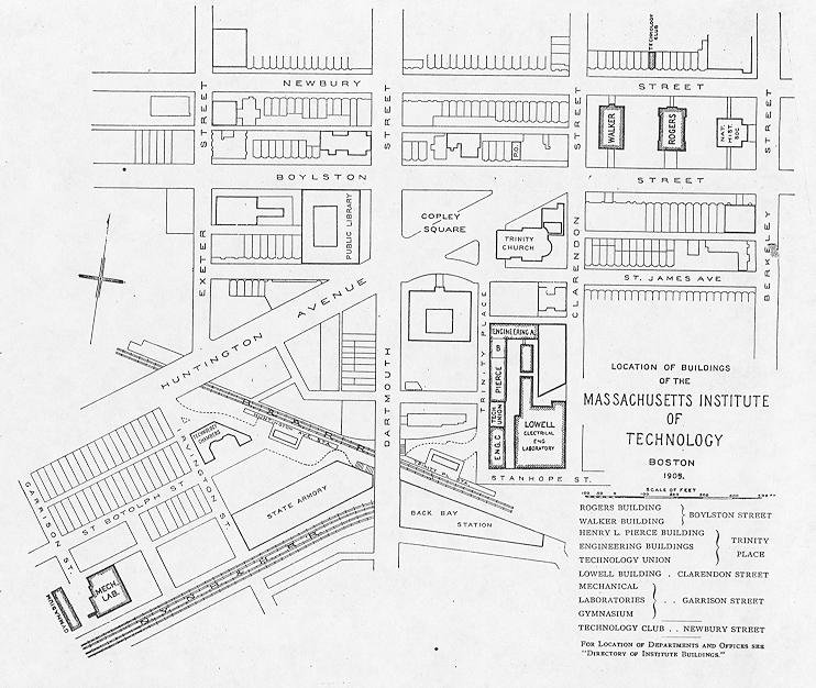 "Location of the Buildings of the Massachusetts Institute of Technology